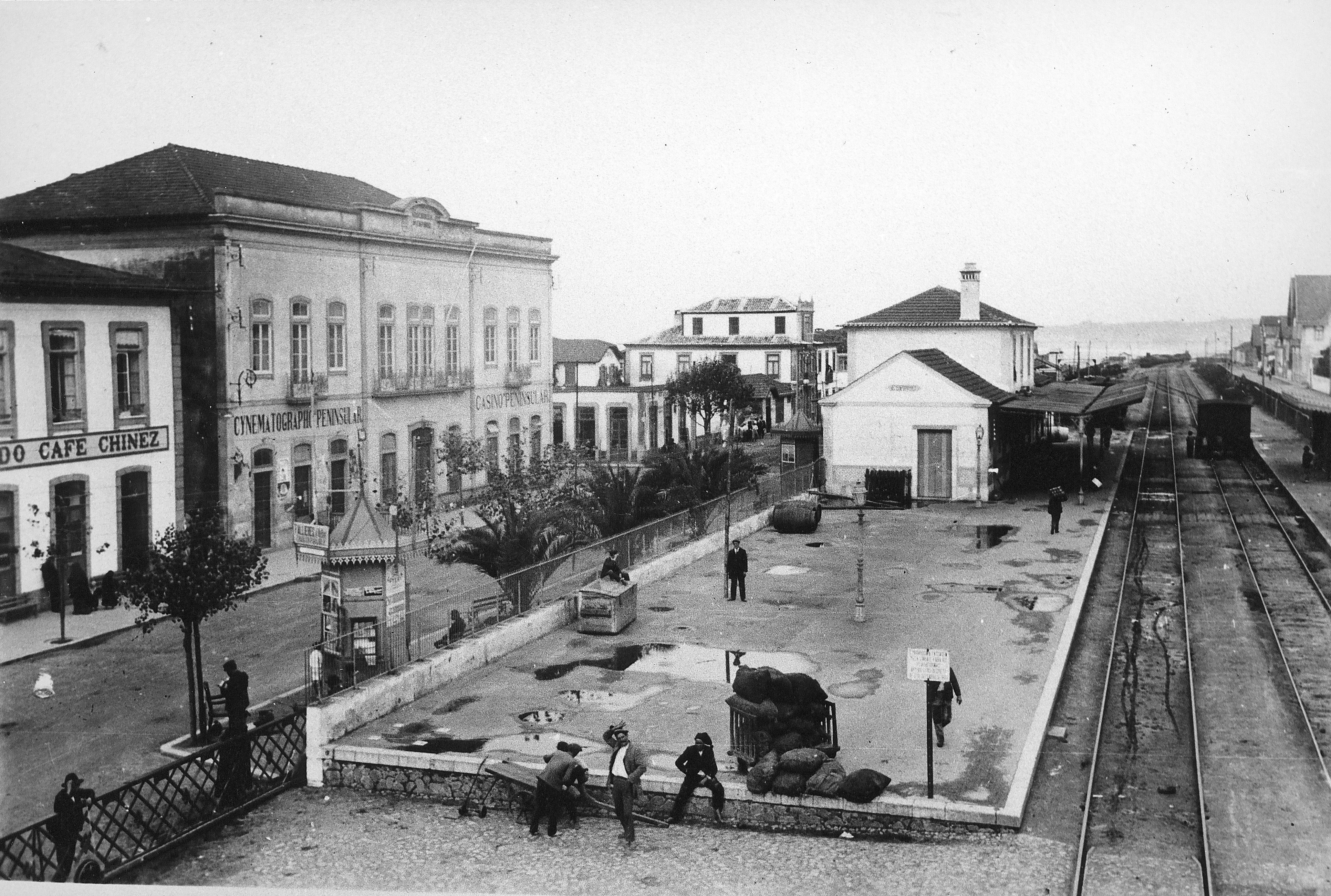 Old photograph of Espinho Railway Station, in Portugal.